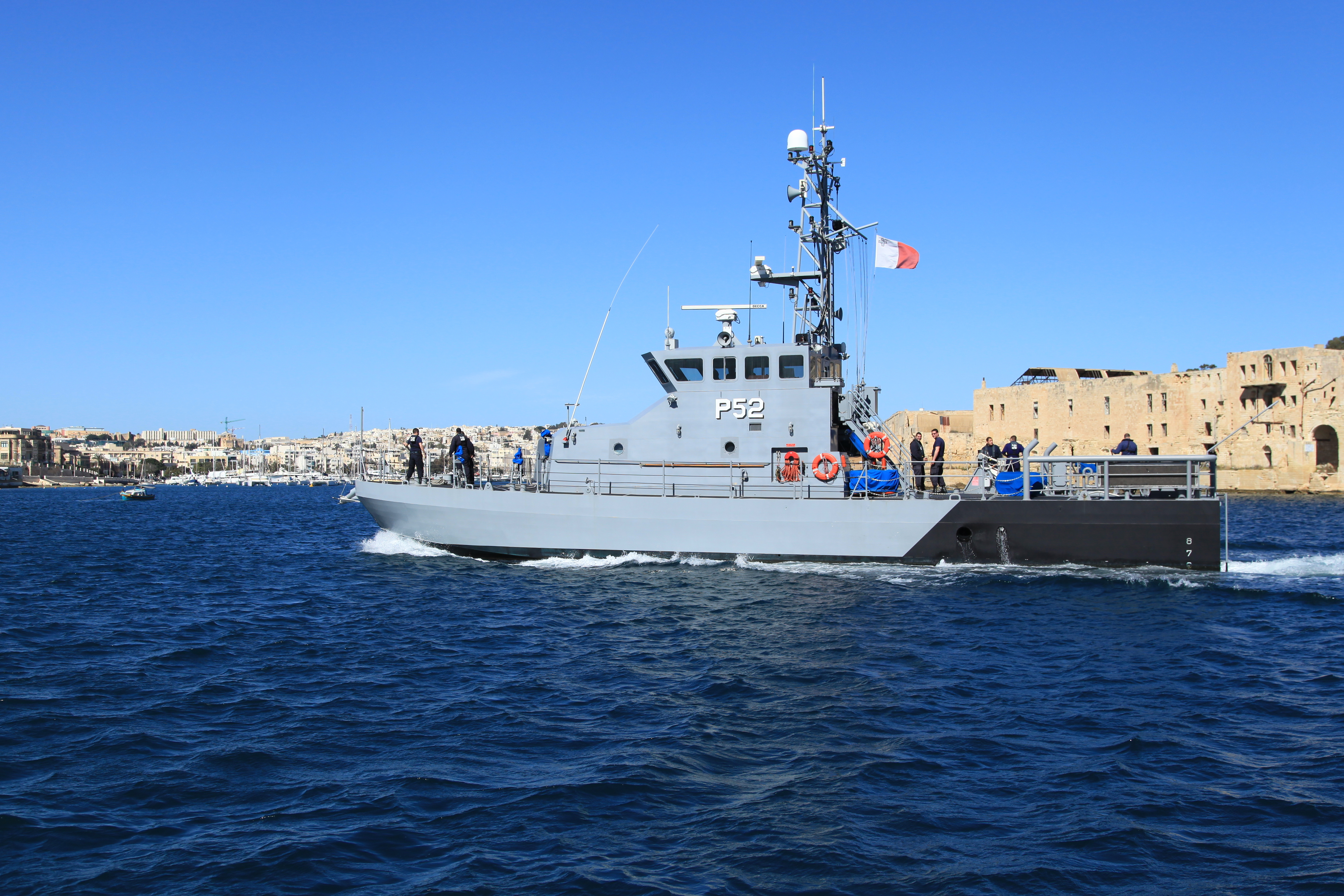 View from a Malta sightseeing two harbours cruise boat to the Lazzaretto Creek at Gżira, Malta